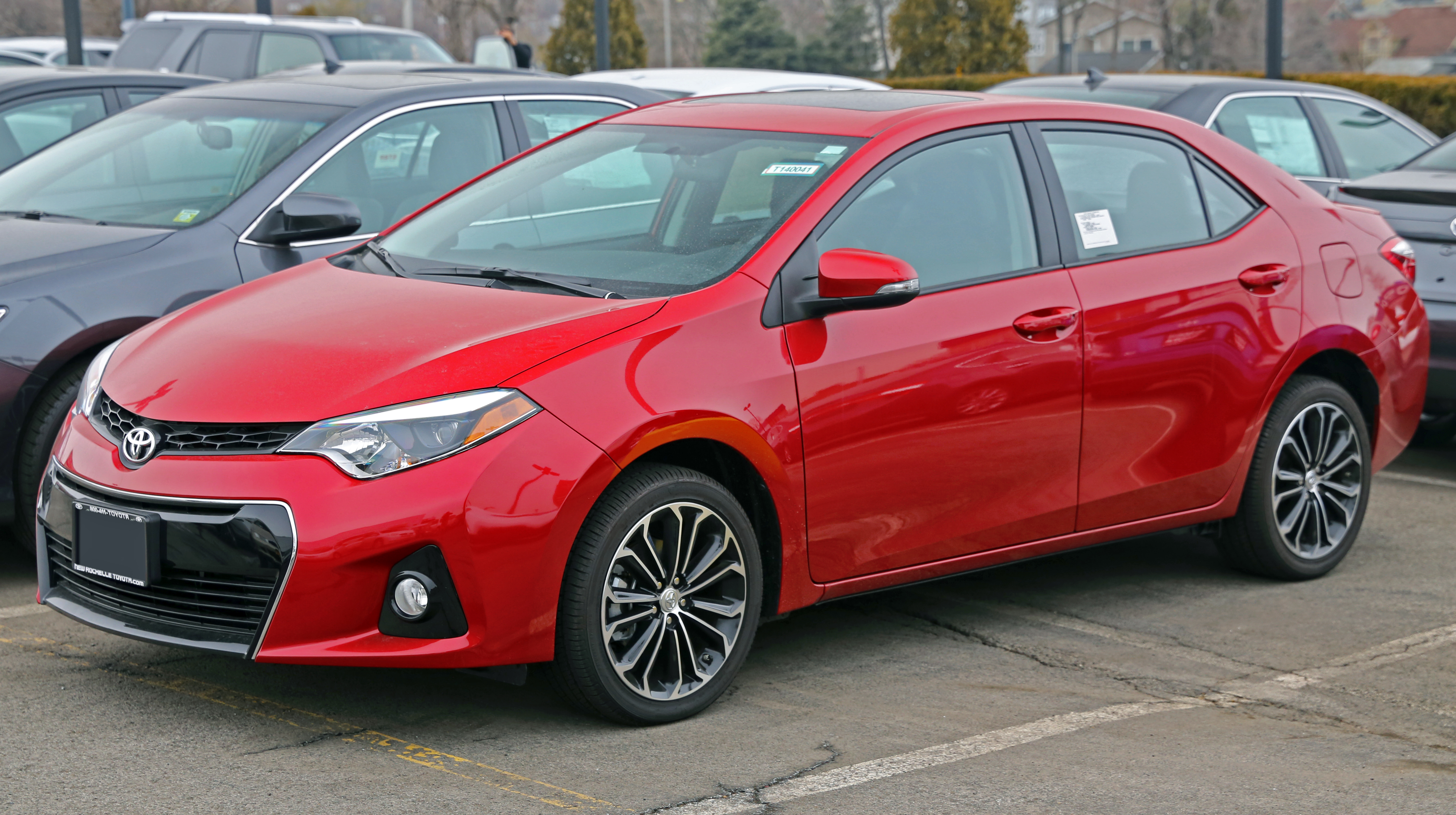 2014 US market Toyota Corolla S CVT.